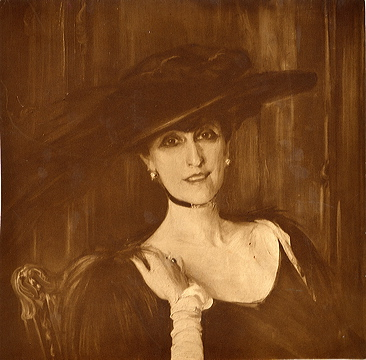 Portrait of Ava Astor